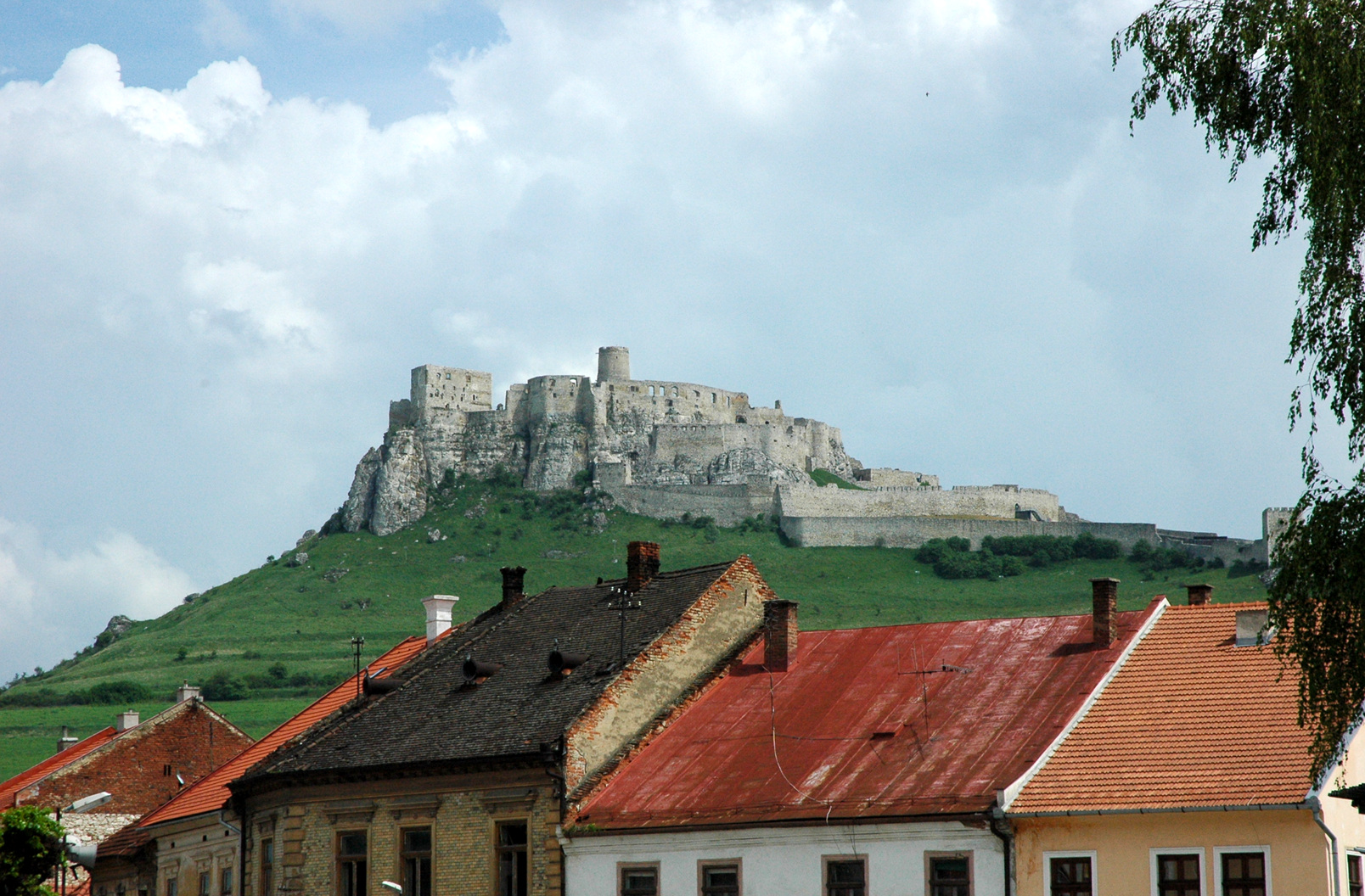 Spiš Castle